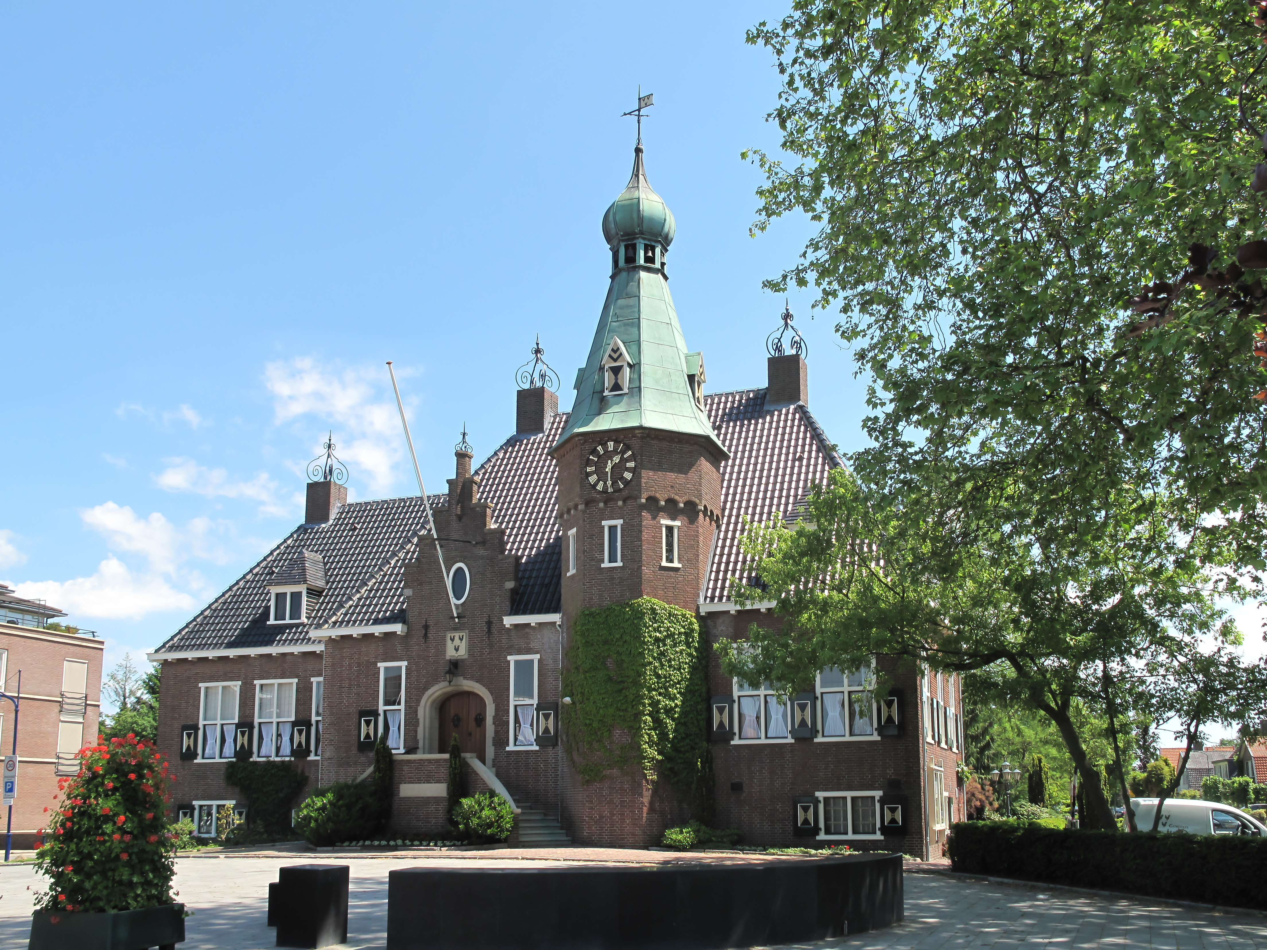 Woudenberg, townhall